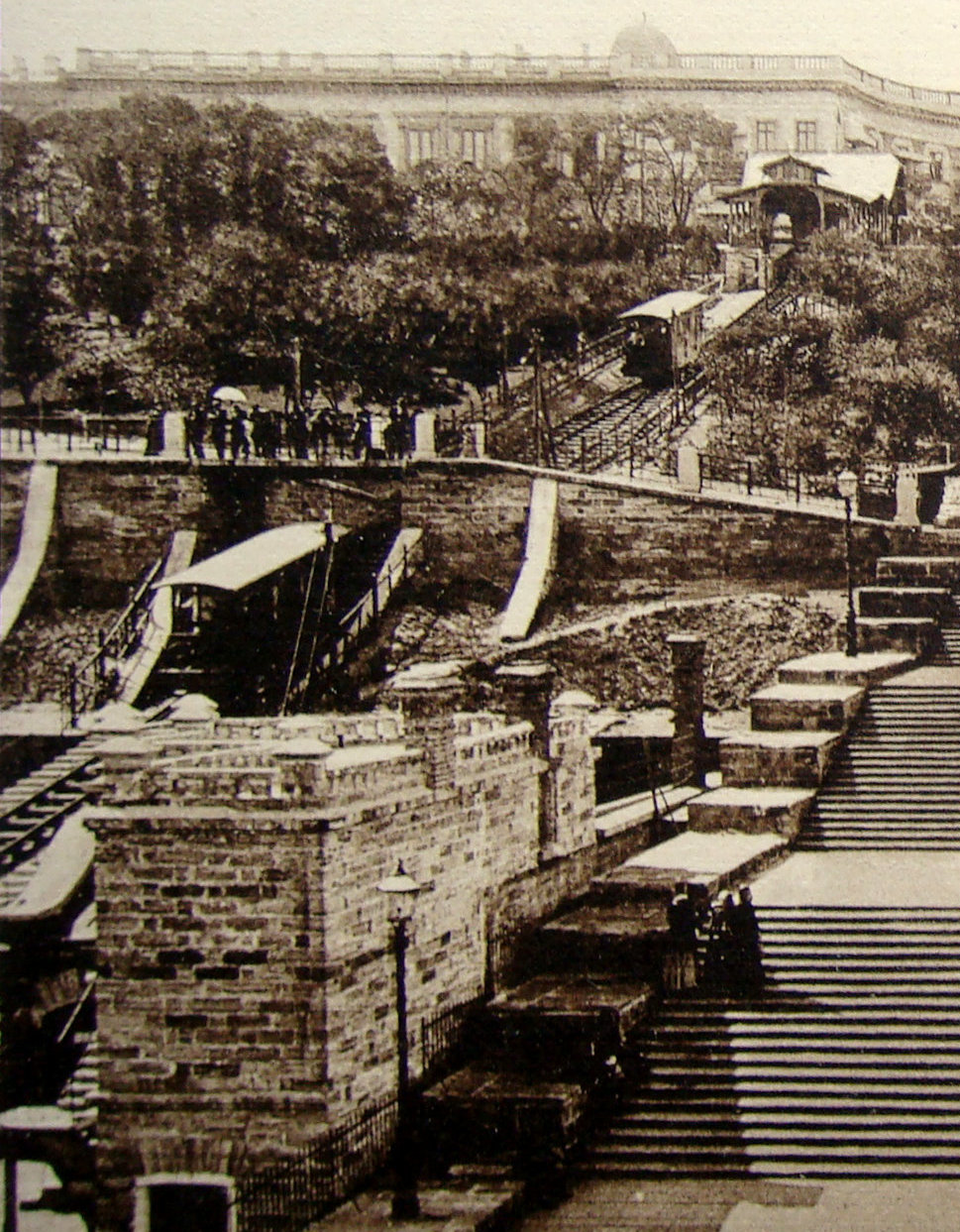 This is photo view of Odessa from Souvenir Photo Album published in Odessa circa early XX century.